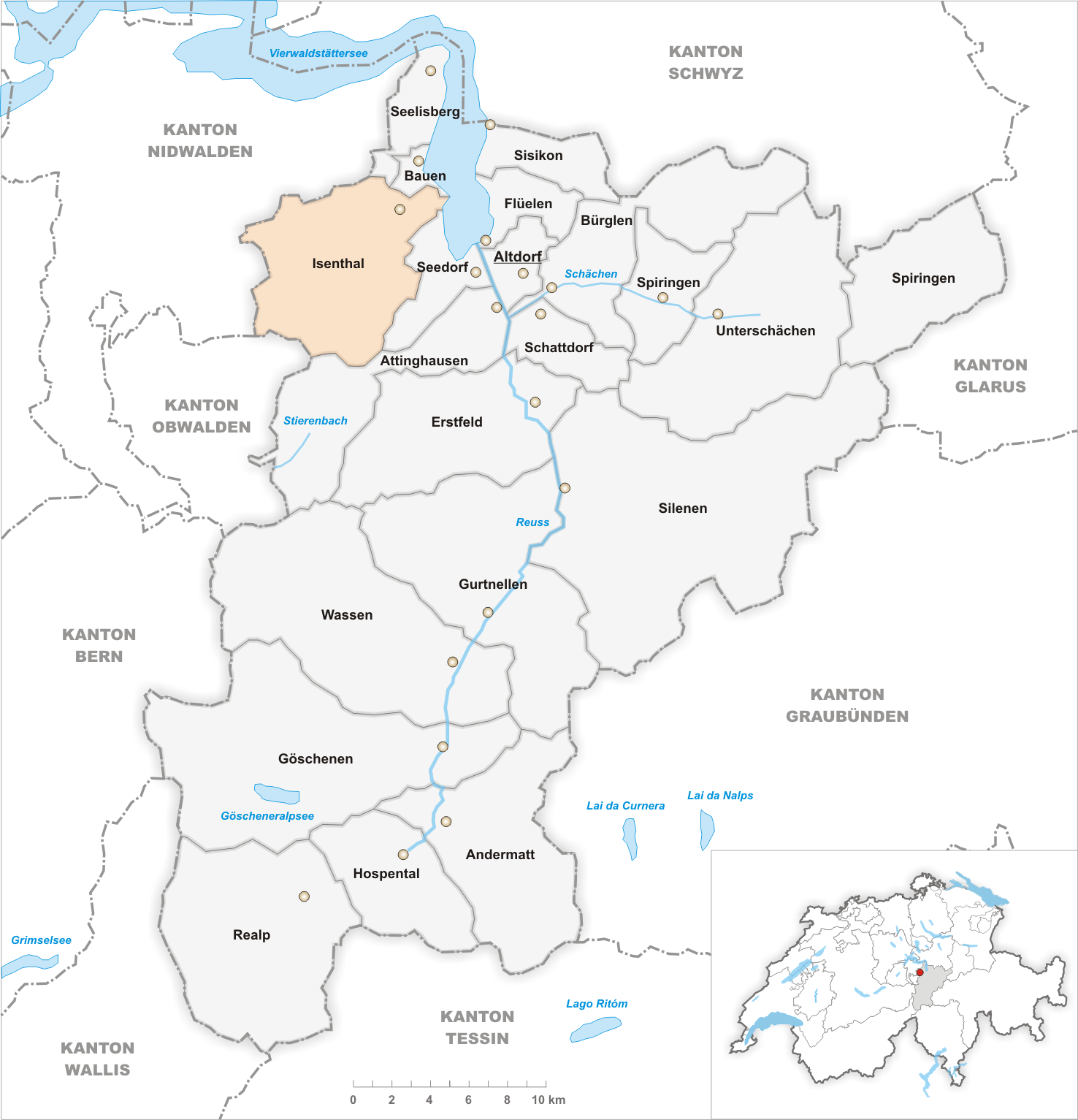 Municipality Isenthal